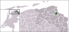 Locator map of Dutch municipalities in Groningen (LocatieAppingedam.png)